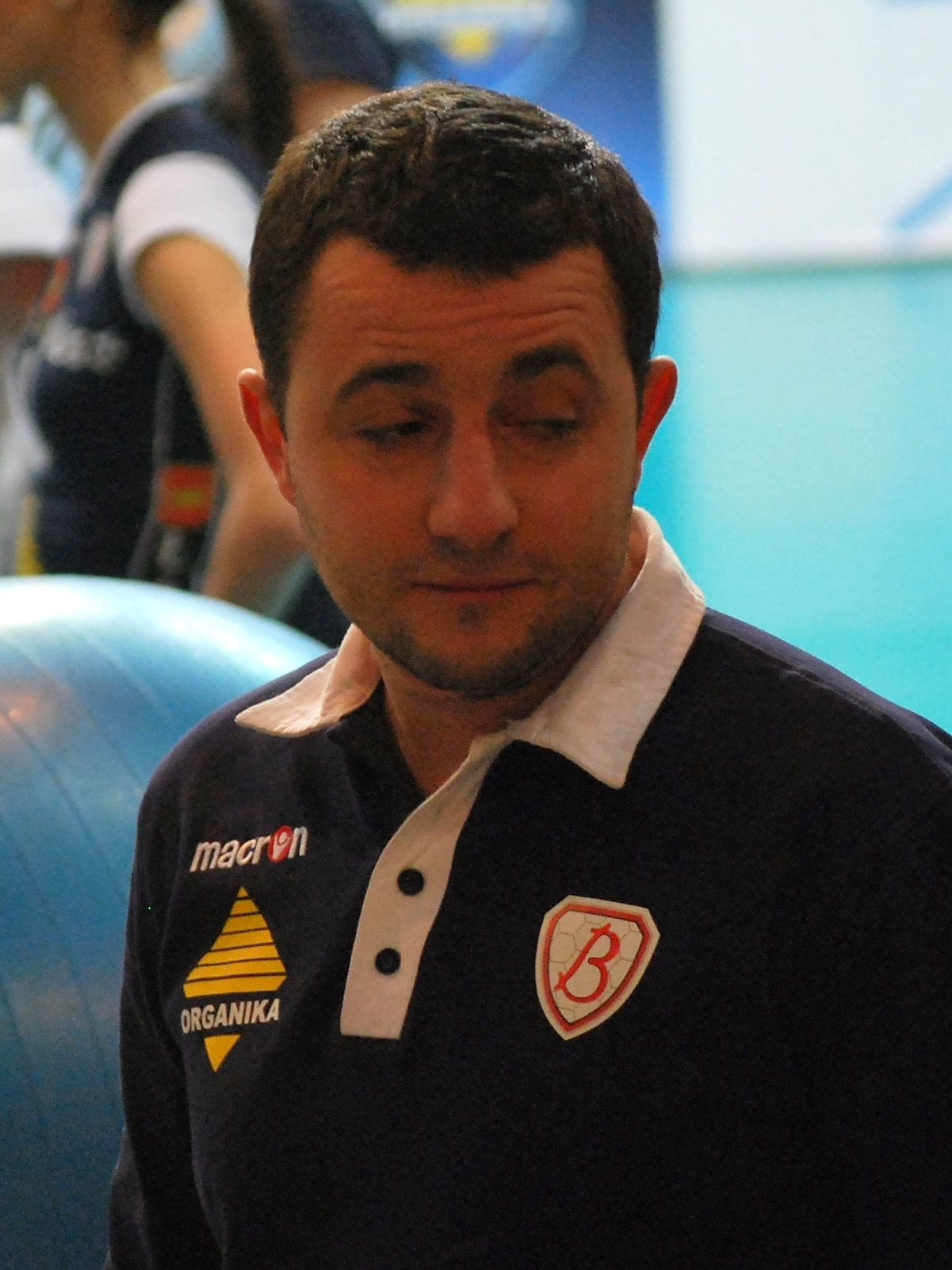 Marcin Chudzik, president of the Organika Budowlani Łódź women's volleyball club